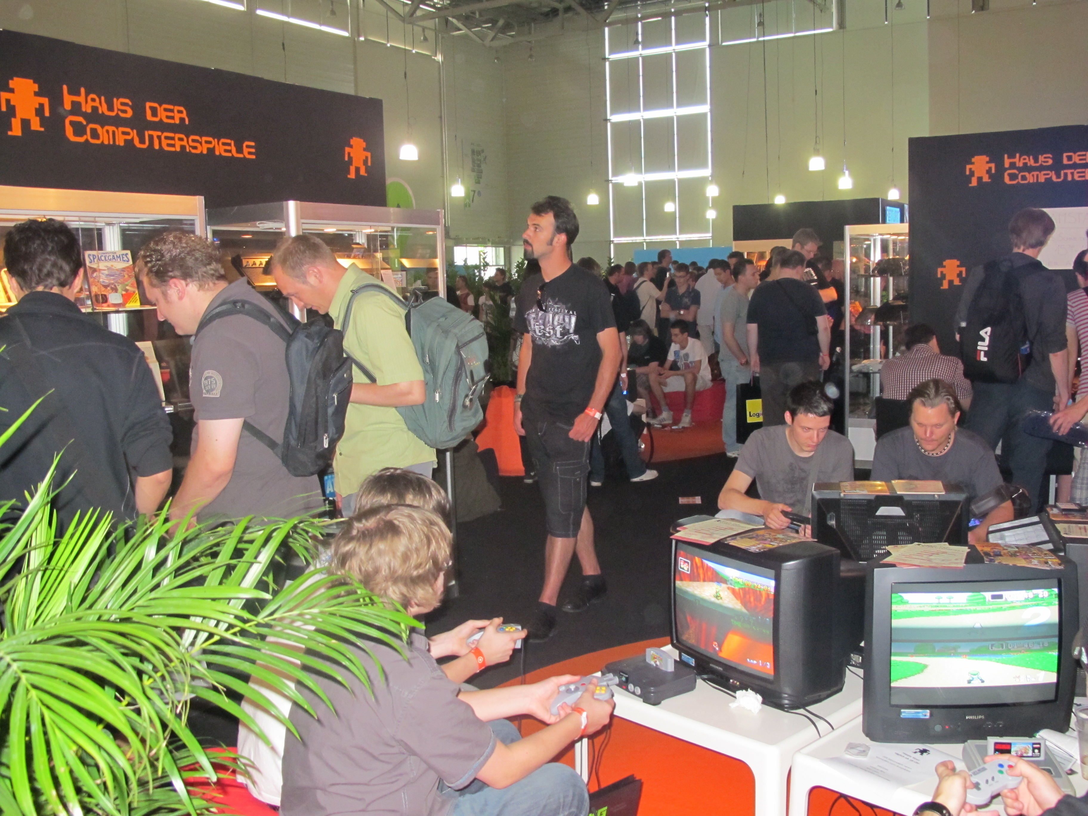 Haus der Computerspiele - Gamescom 2010